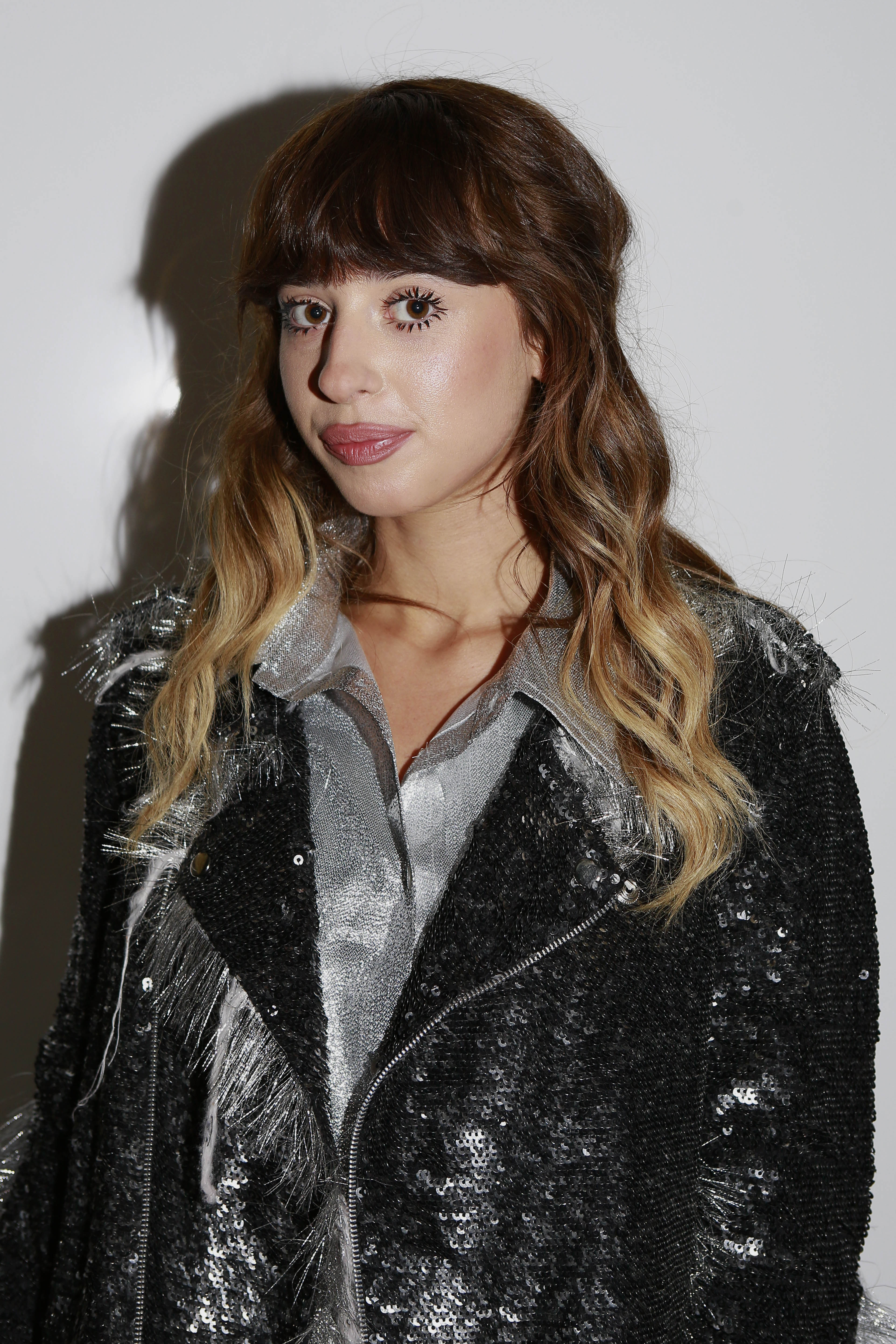 Singer - Foxes- Model